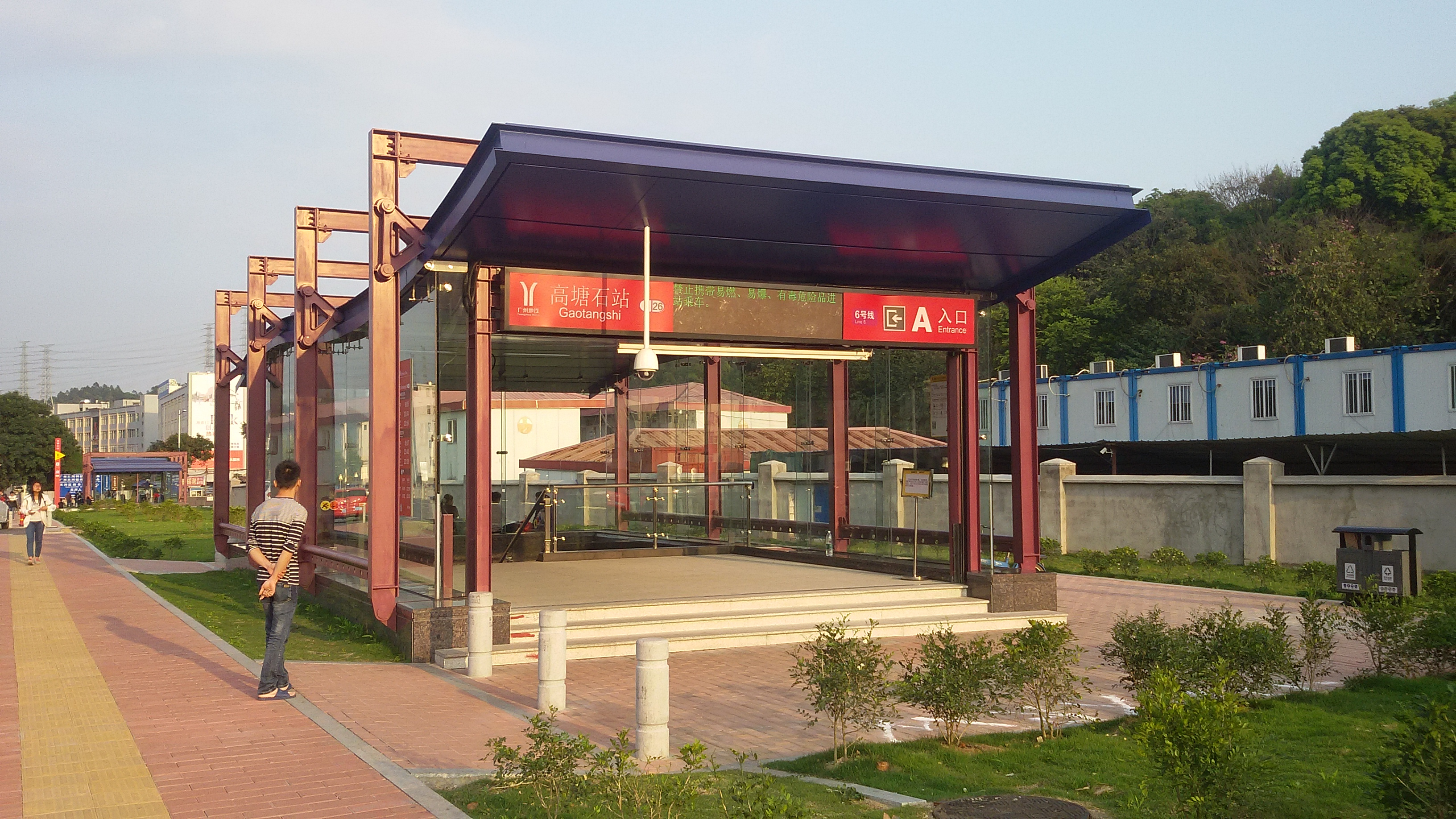 Exit A for Gaotangshi Station in Guangzhou Metro.